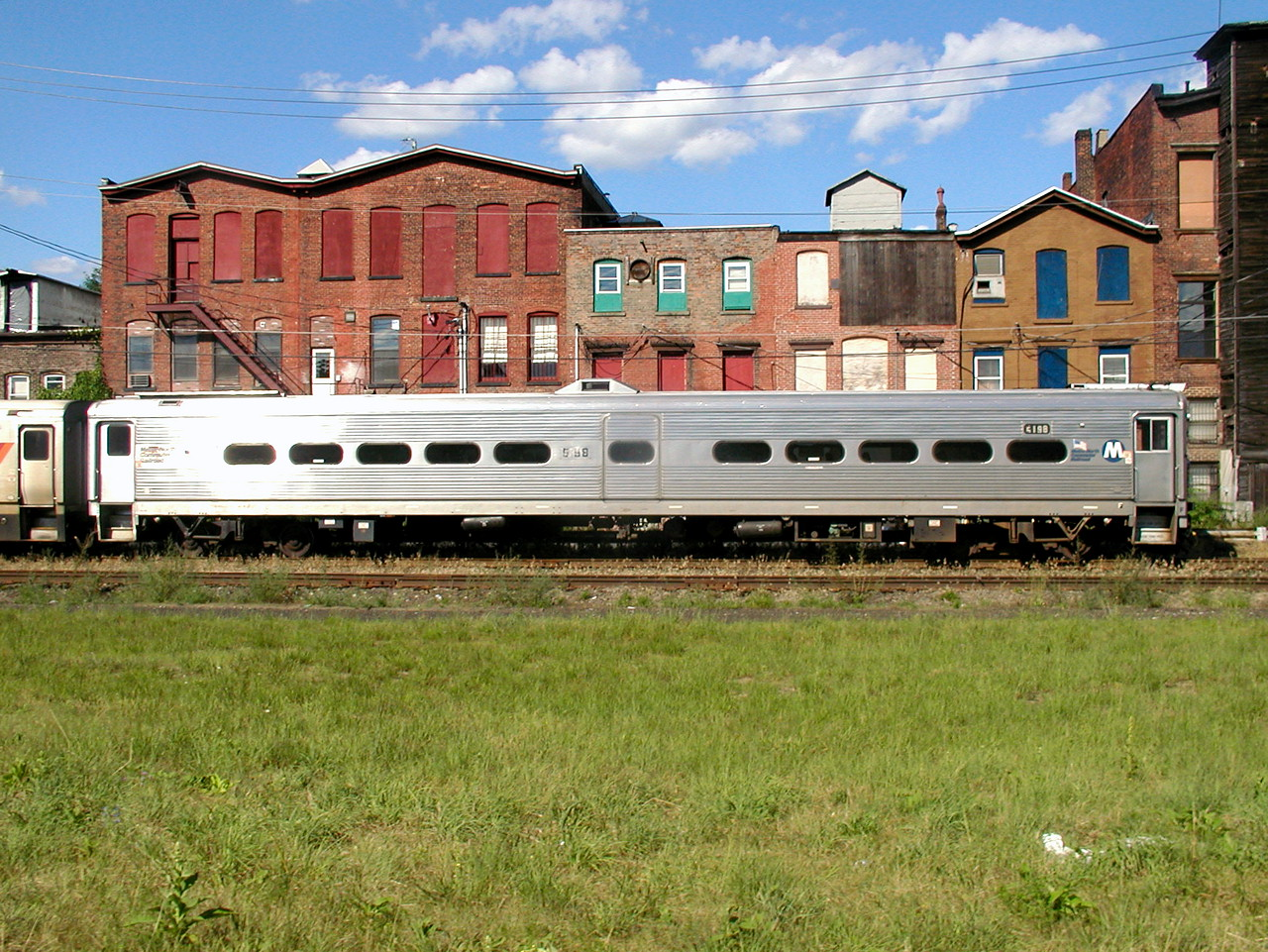 Metro North Comet IA commuter railcar at Port Jervis station in 2002.